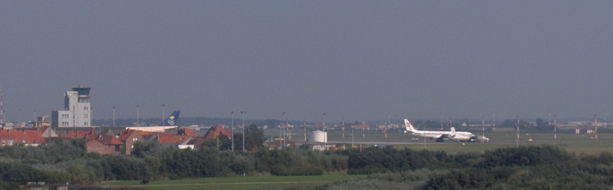 Traffic on the Ostend-Bruges International Airport; Oostende, Belgium